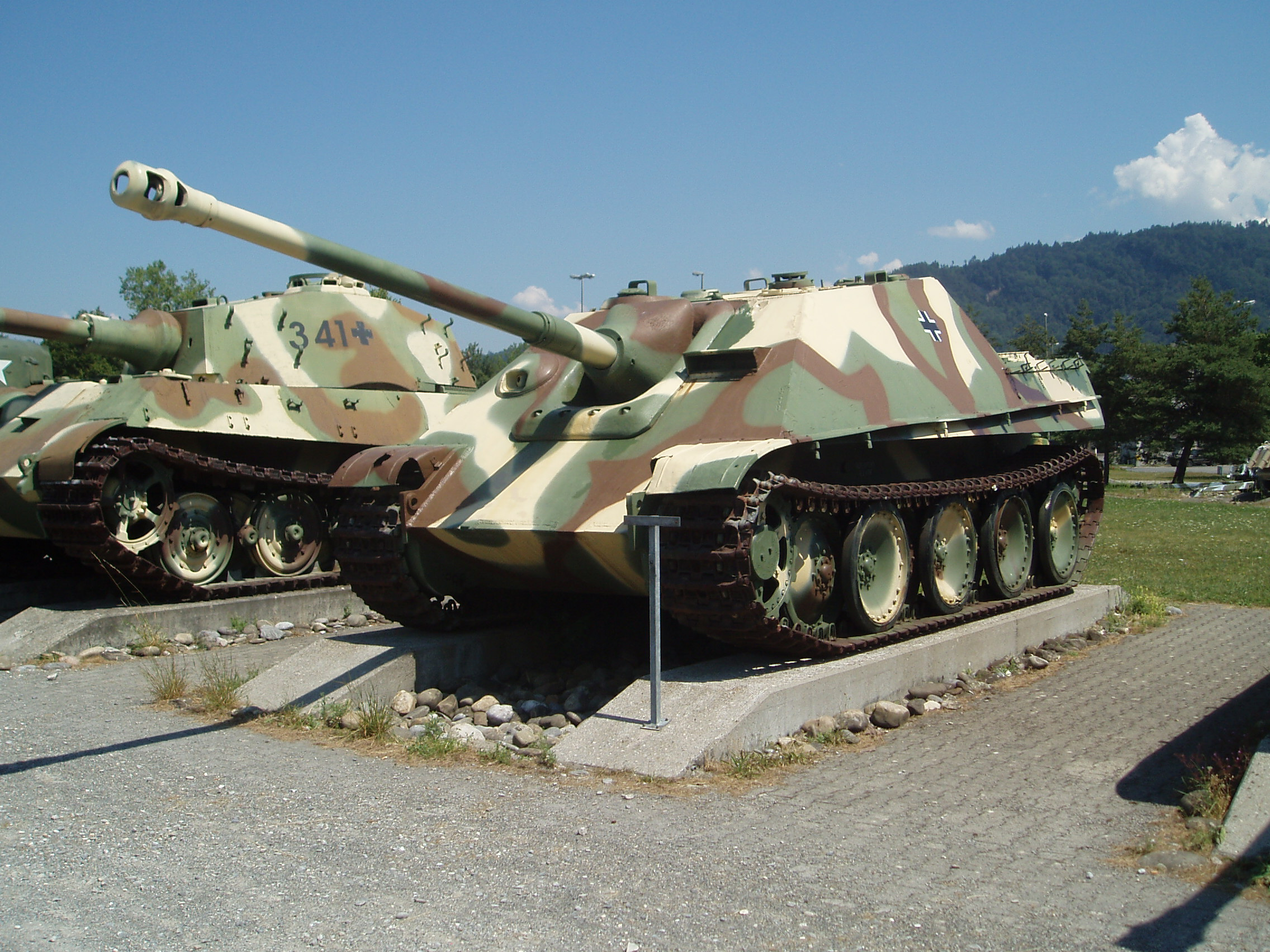 A Jagdpanther at the Panzermuseum Thun, Switzerland